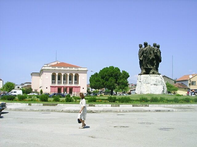 Town of Scutari, main town in northern Albania